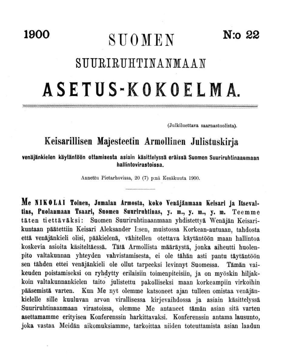 The so called language manifesto from Grand Duchy of Finland, imposing the use of the Russian language in Finland.